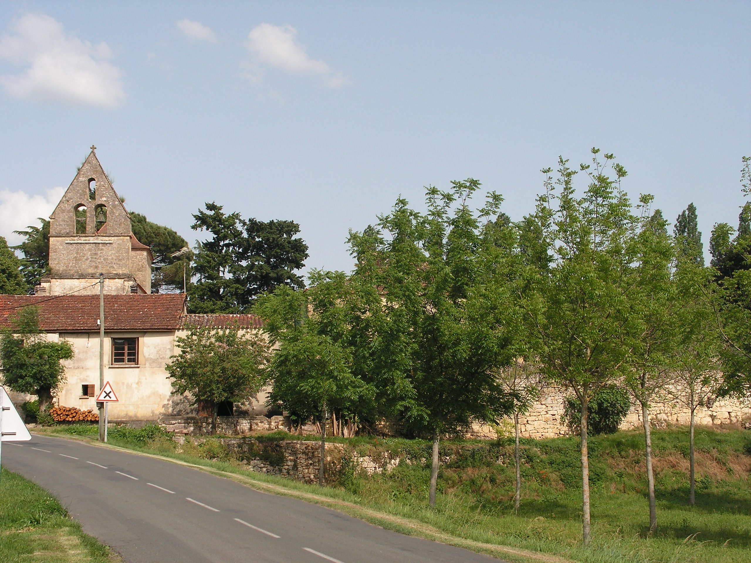 Varennes (Dordogne)